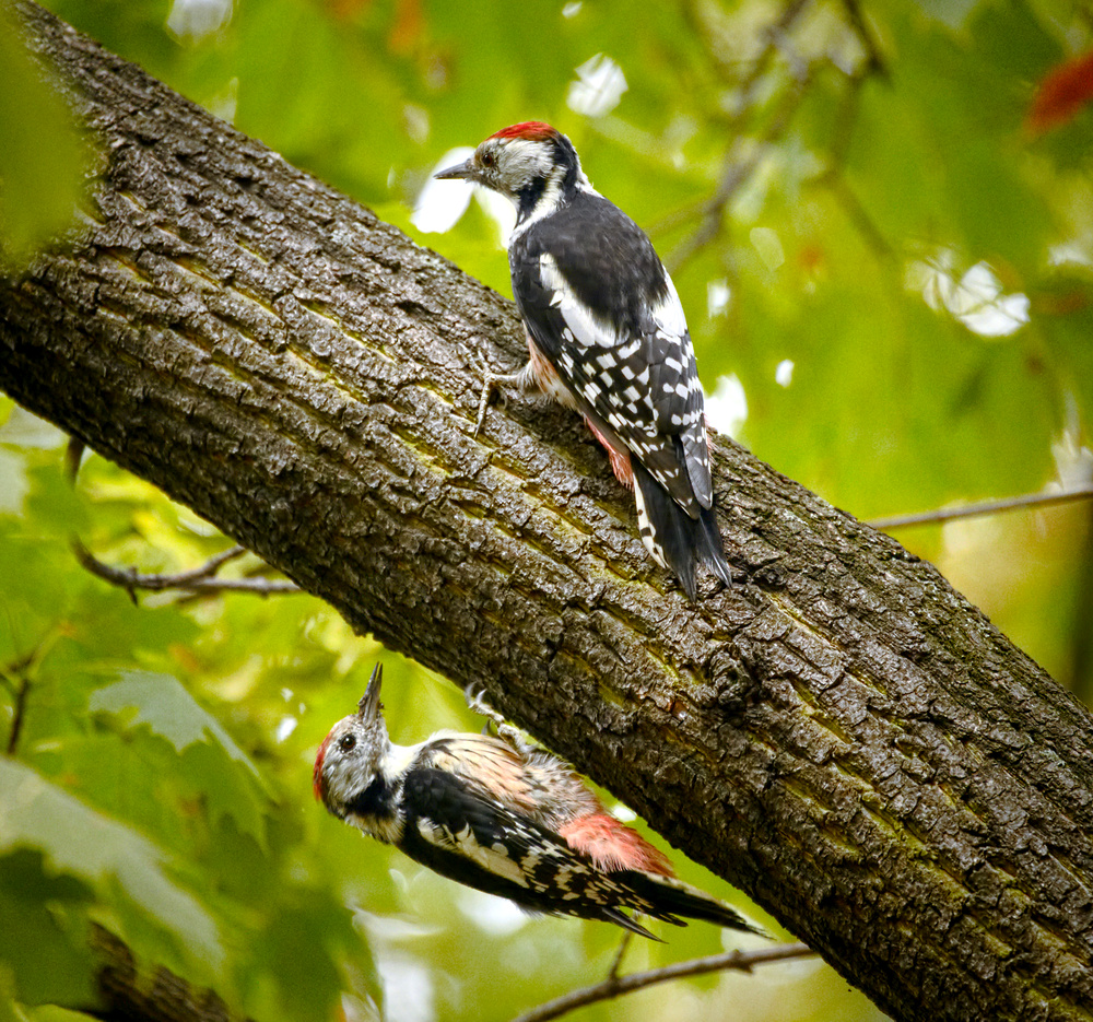 Two Middle Spotted Woodpeckers Dendrocopos medius during territorial dispute. They chased each other very fervently.